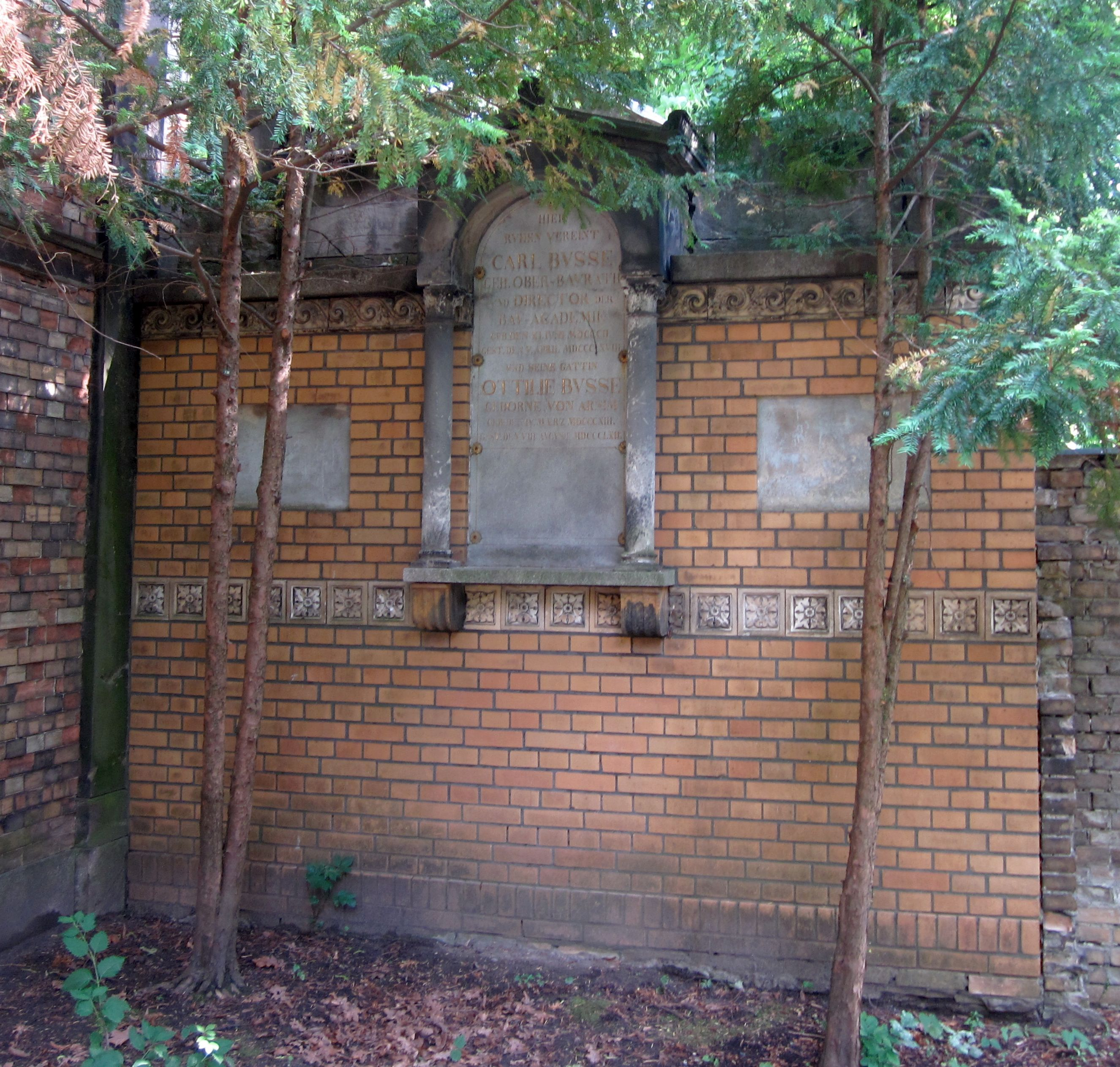 Grave of the architect Carl Ferdinand Busse (1802-1868) and his wife Ottilie née von Arnim (1813-1862) on Friedrichswerderscher Friedhof (cemetery) at Bergmannstraße in Berlin-Kreuzberg.